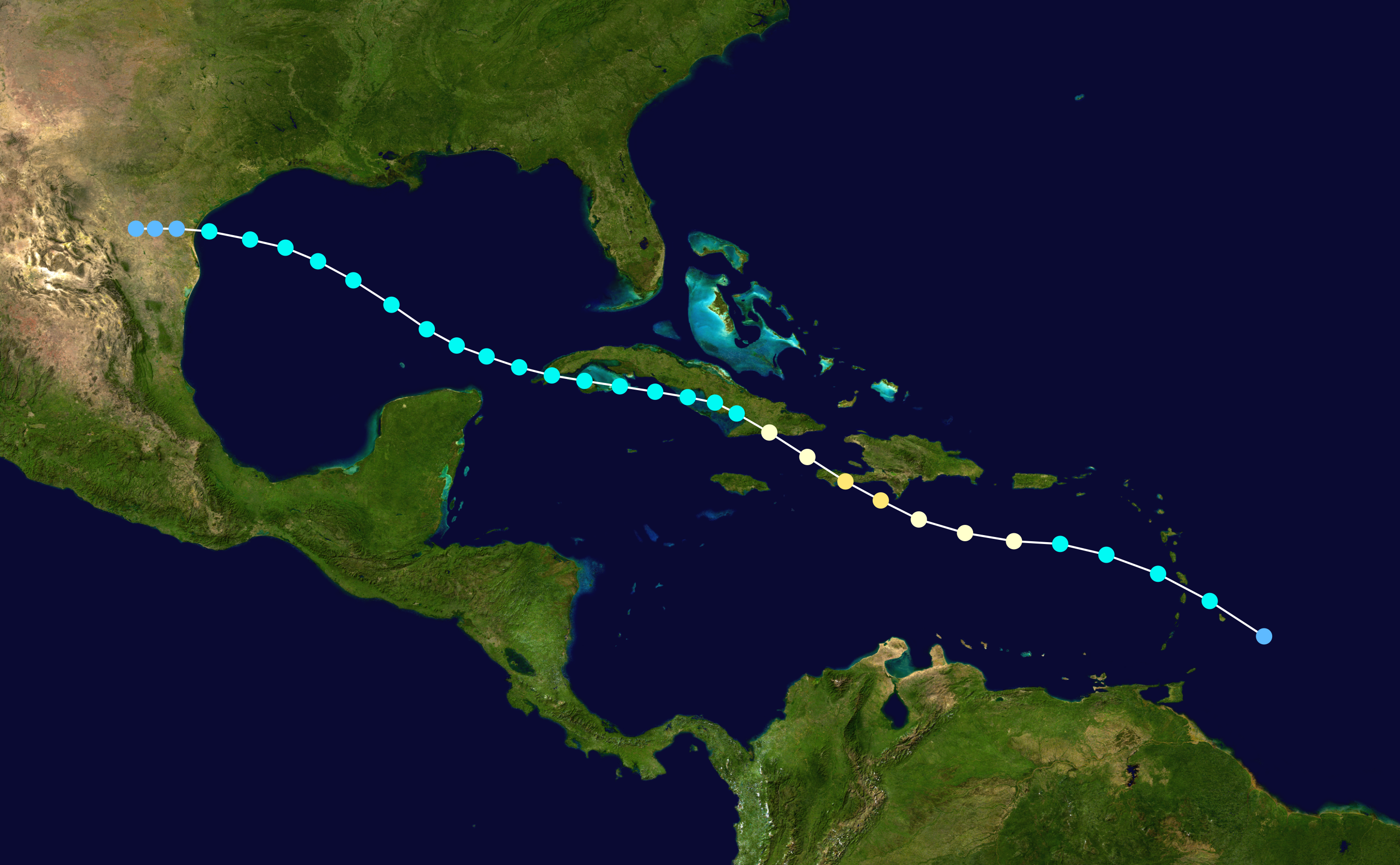 Hurricane Ella (1958) track. Uses the color scheme from the Saffir-Simpson Hurricane Scale.